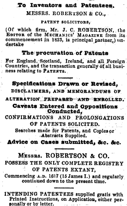 Advertisement for Robertson & Co., patent solicitors, from the Mechanics's Magazine of London in 1847.